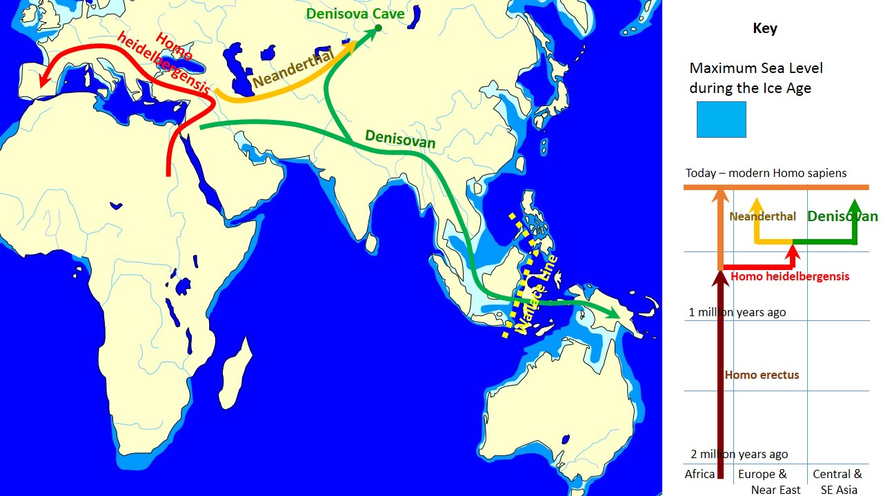 The map shows spread and evolution of Denisovans